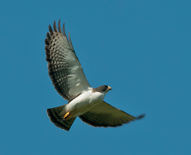 A Short-tailed Hawk flying in Manduri, São Paulo, Brazil.